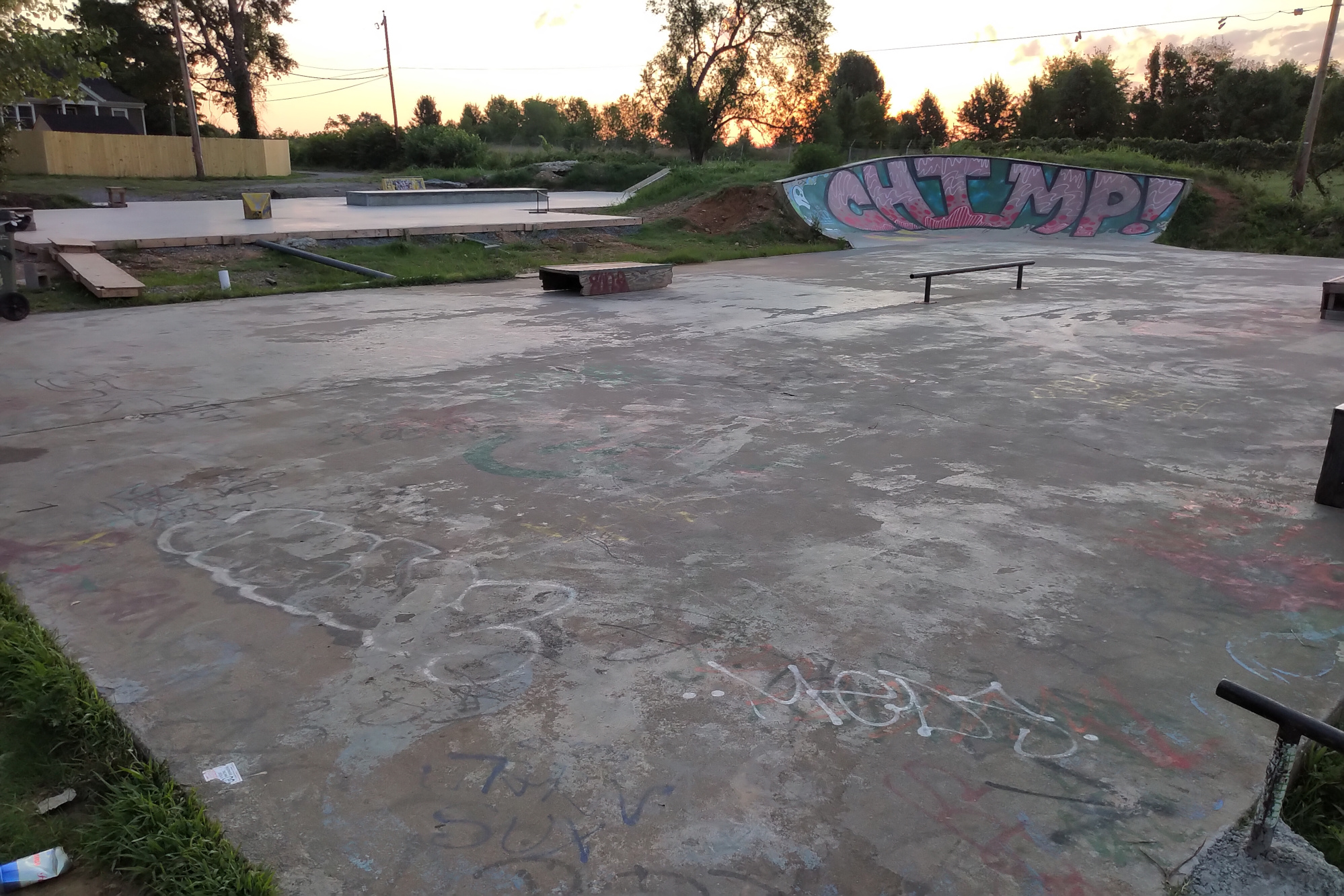 Photo of Treasure Island Community Skate Park at Riverview Community Park, Richmond, Virginia, United States, taken at 0607 (EDT) Saturday, 13 July 2019